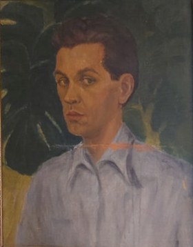 Self-portrait of Endre Lazányi (1914–2009) biologist, university professor (family legacy)